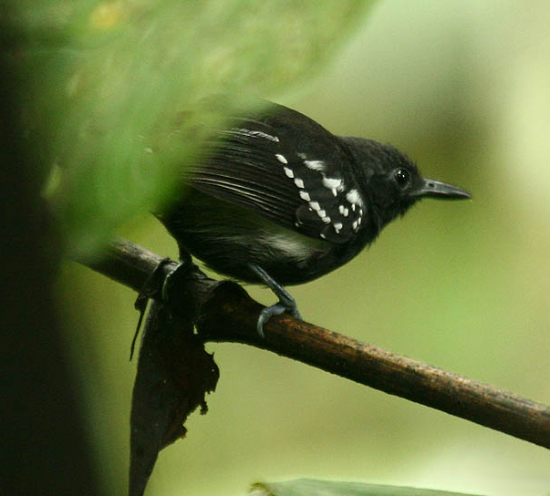 White-flanked Antwren (Myrmotherula axillaris). A male at Rio Silanche (PVM), NW Ecuador.